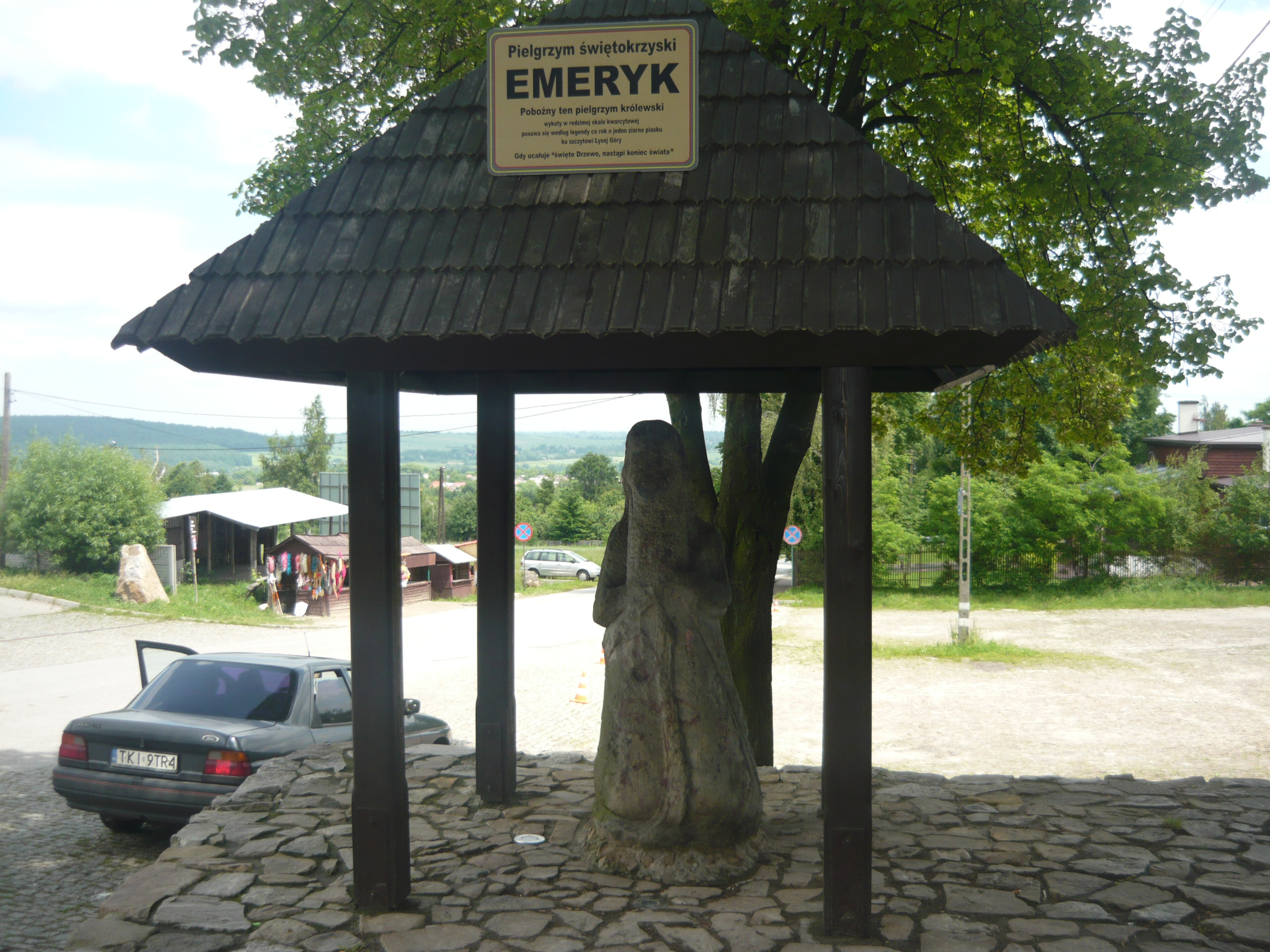 Pomnik